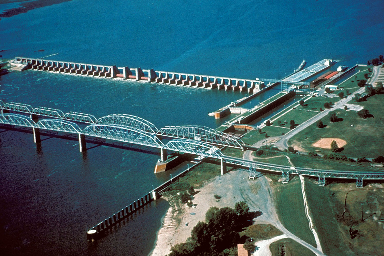 Aerial view of old Lock and Dam 26 — on the Mississippi River in Missouri and Alton, Illinois. (Caption from source page is incorrect and says this is L&D 19, but it is actually 26, now demolished.)